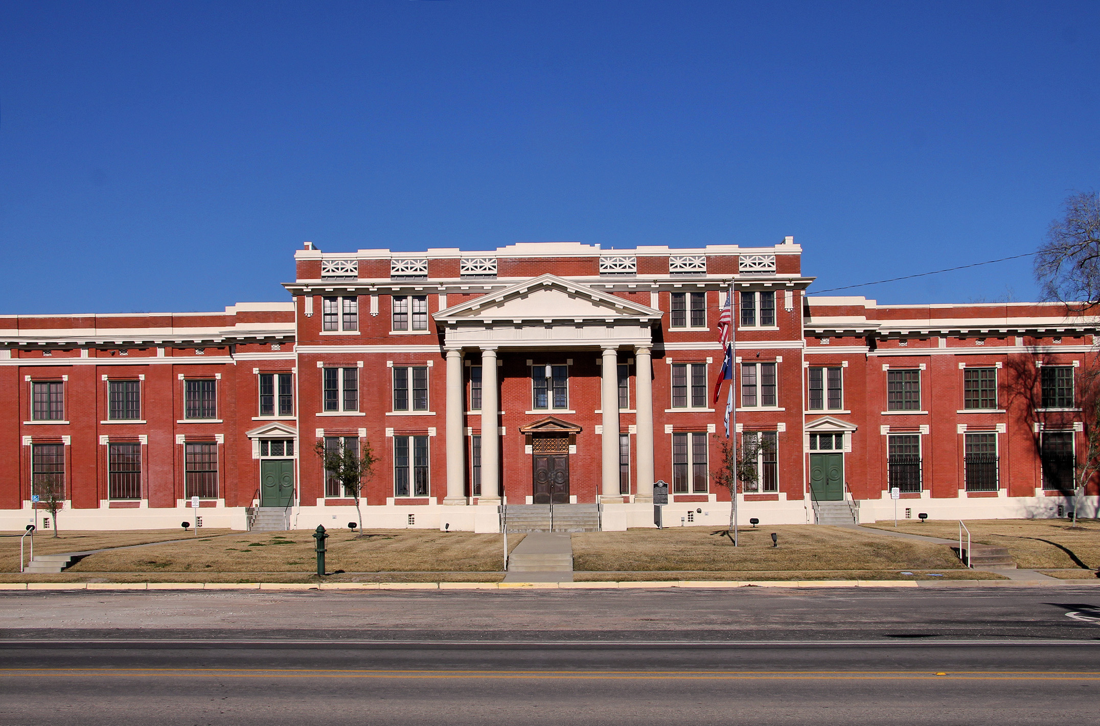 The Trinity County, Texas Courthouse in Groveton, Texas, United States. Recorded Texas Historic Landmark - 2004